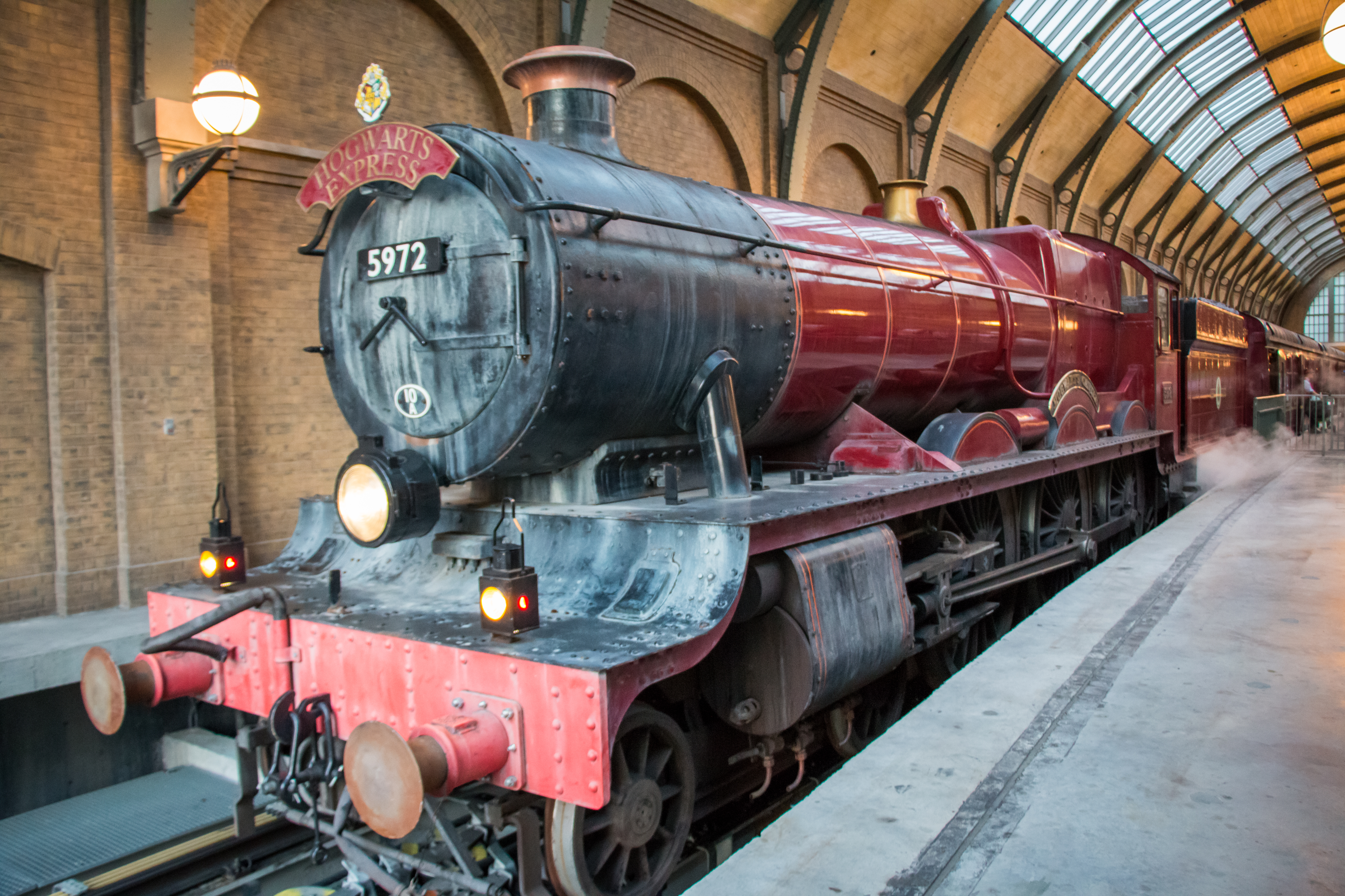 The Hogwarts Express at Platform 9¾ in Universal Studios Florida.